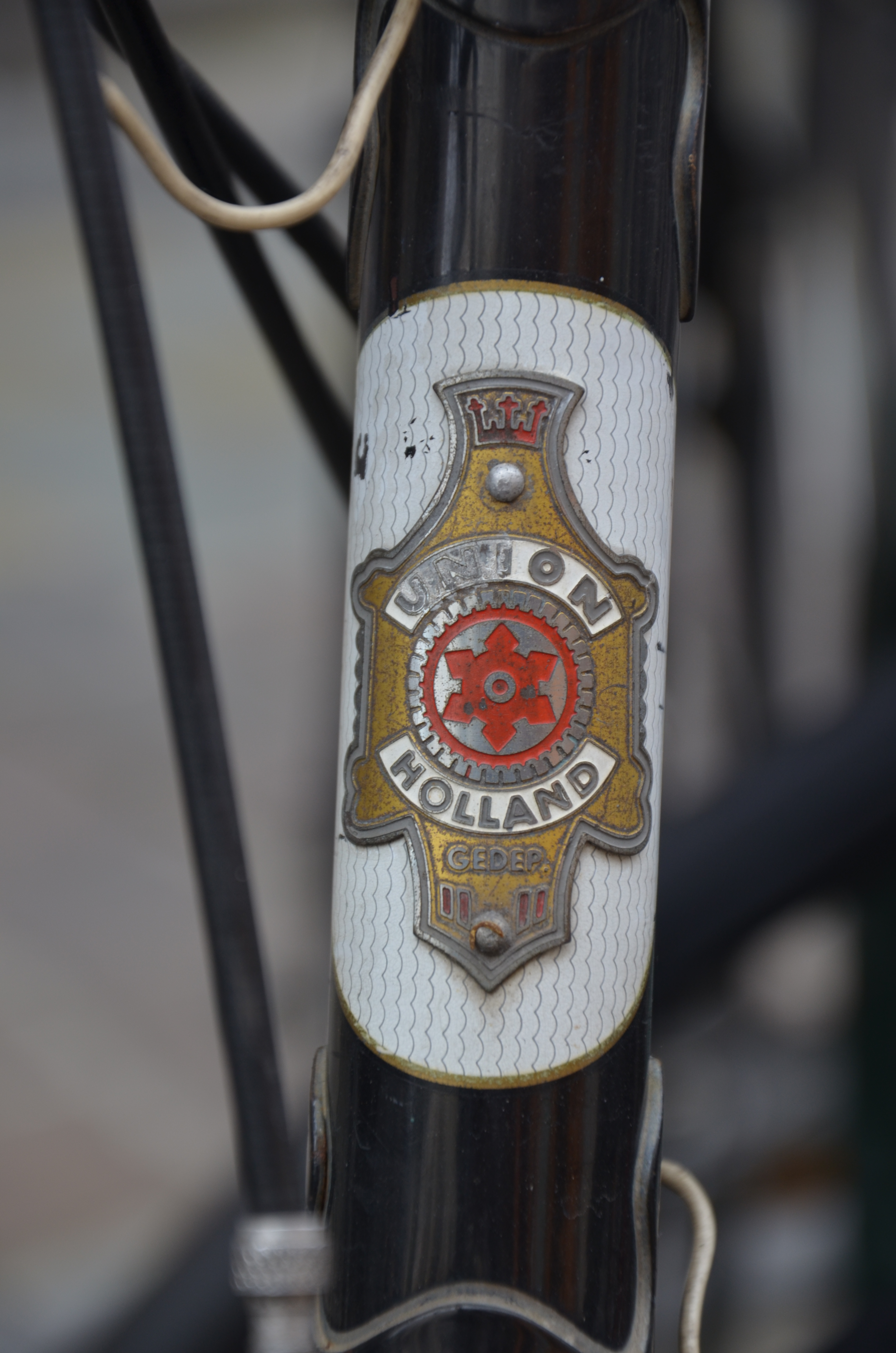 Union bike's head badge.